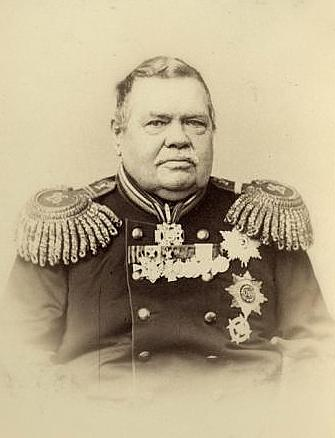 Portrait of count Muravyov-Vilensky